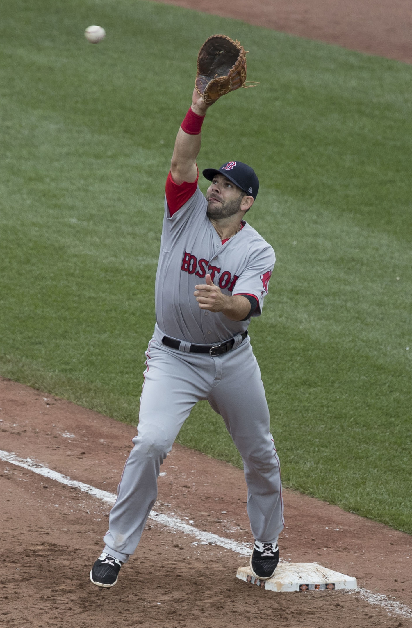 Red Sox at Orioles 4/23/17